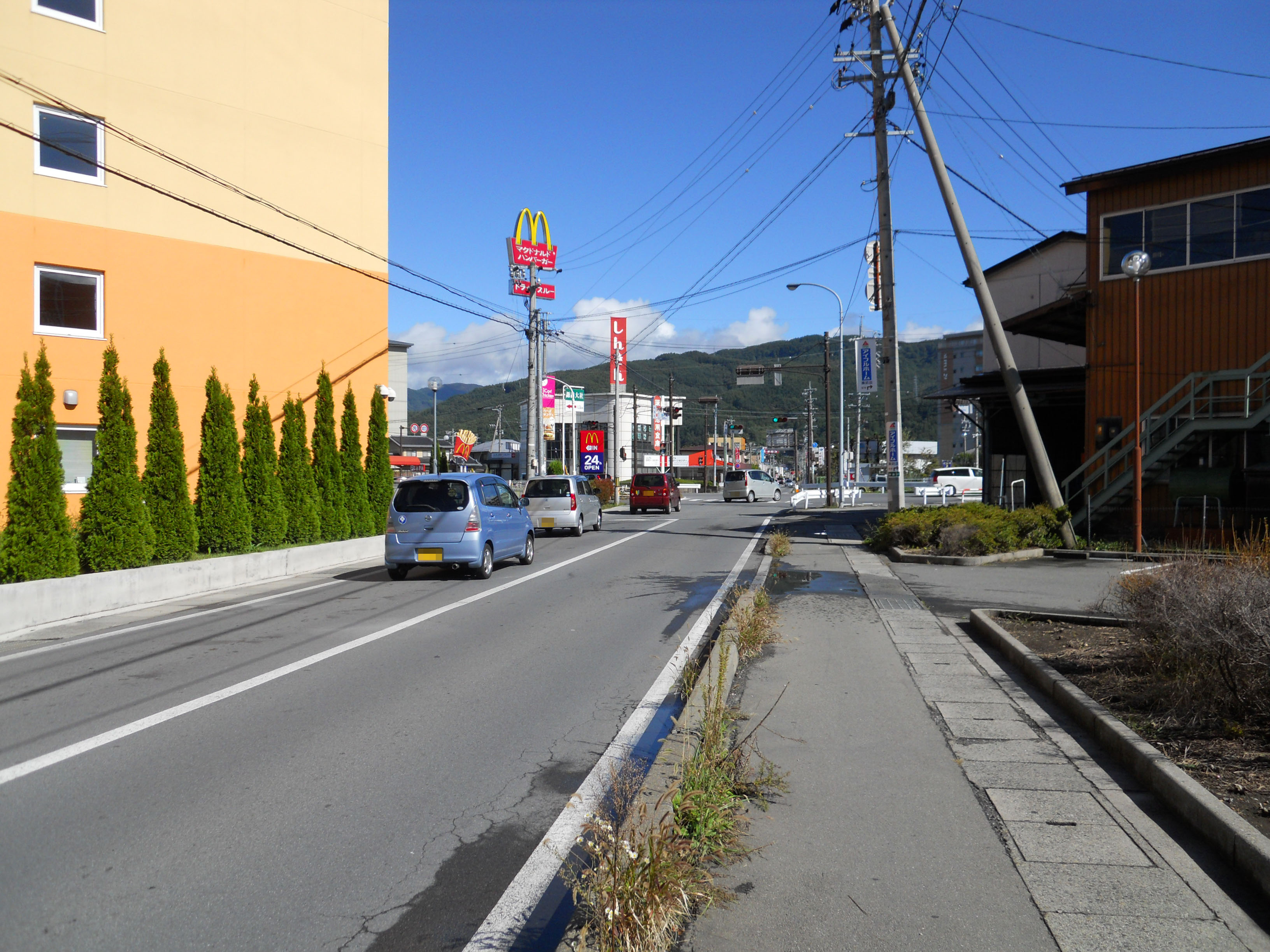 Iijima Intersection on the Nagano Prefectural Road Route 183 in Suwa City